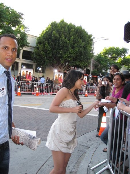 Vanessa Hudgens signing autographs at the premiere of Bandslam